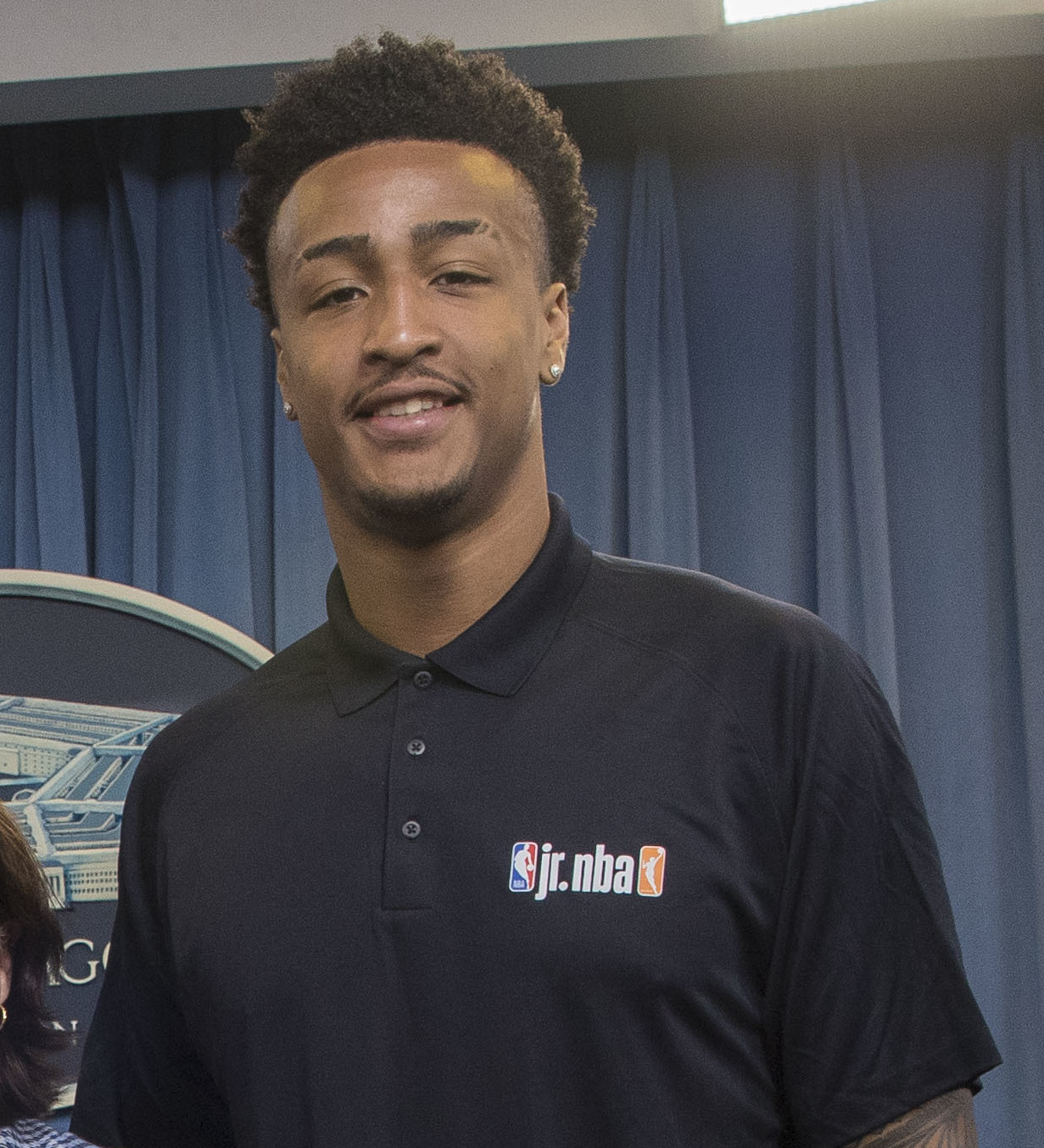 Deputy Assistant to the Secretary of Defense for Strategic Engagement Kim Joiner meets with current and former NBA/WNBA players and operation staff to discuss the #KnowYourMil initiative, the Pentagon, Washington, D.C., May 24, 2019. (DoD photo by Lisa Ferdinando)